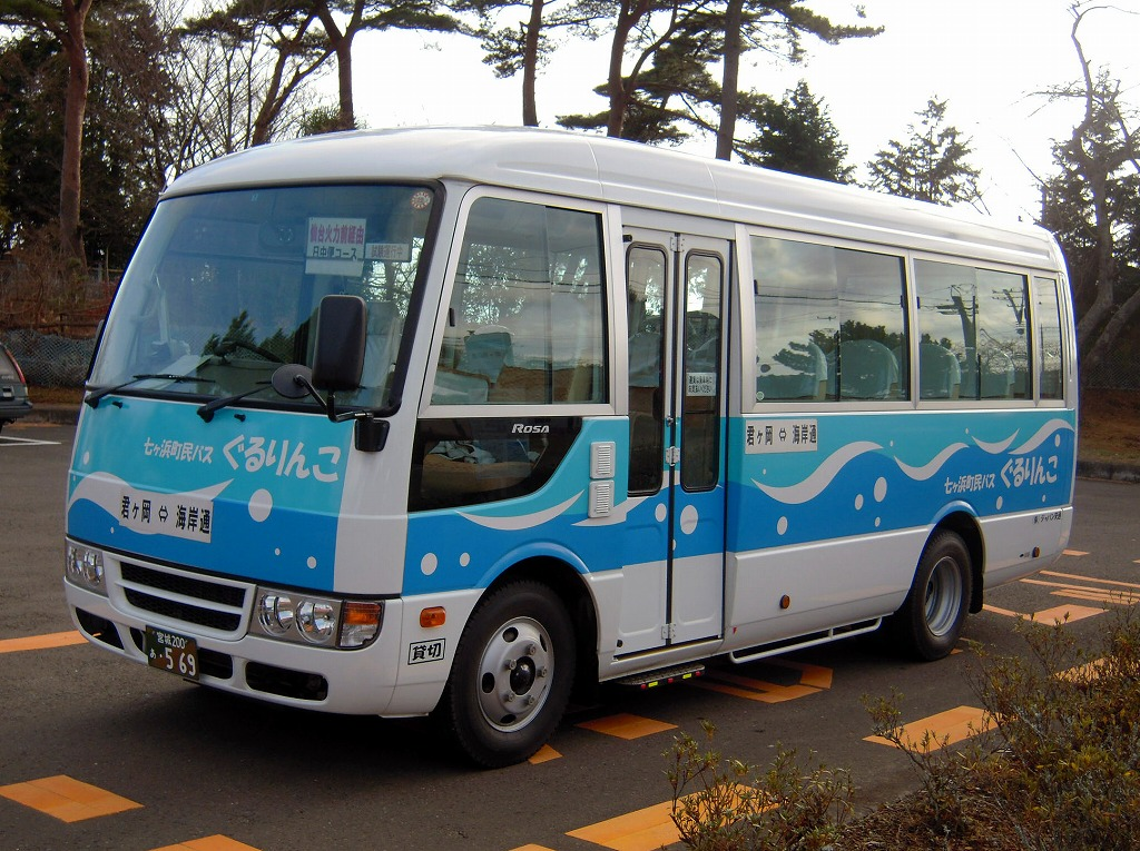 Japan kotsu Mitsubishi Fuso Rosa (PDG-BE64DE) Shichigahama town(Miyagi,Japan) community bus "gururinko"